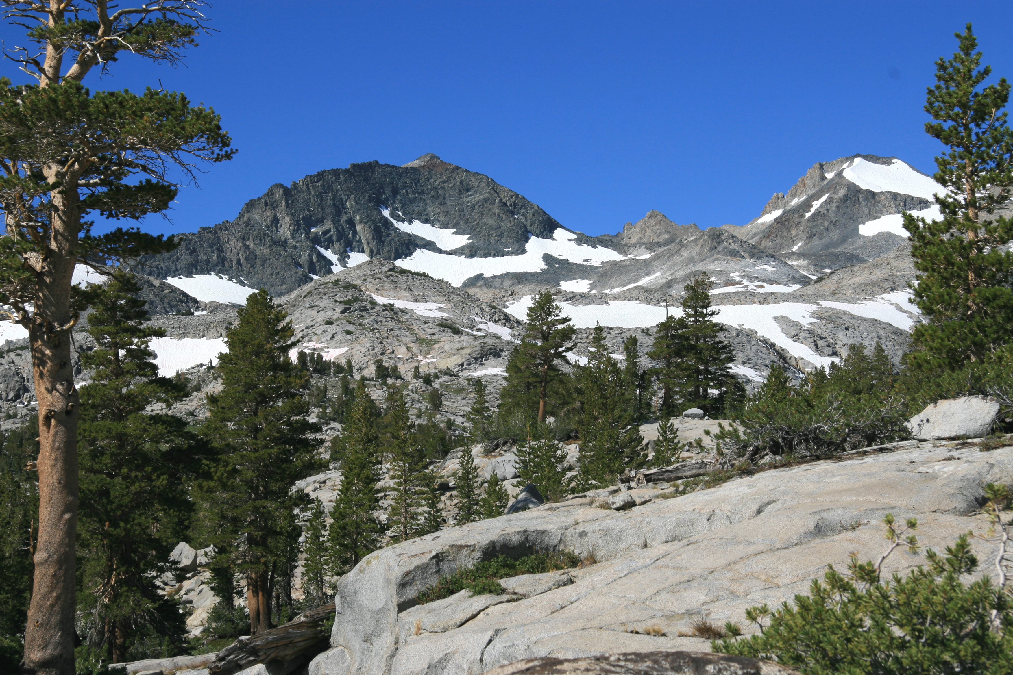 View of Ritter Range mountains and snow across granite ledge, near Pacific Crest Trail South of Donahue Pass, Ansel Adams Wilderness, Sierra Nevada mountains, California.